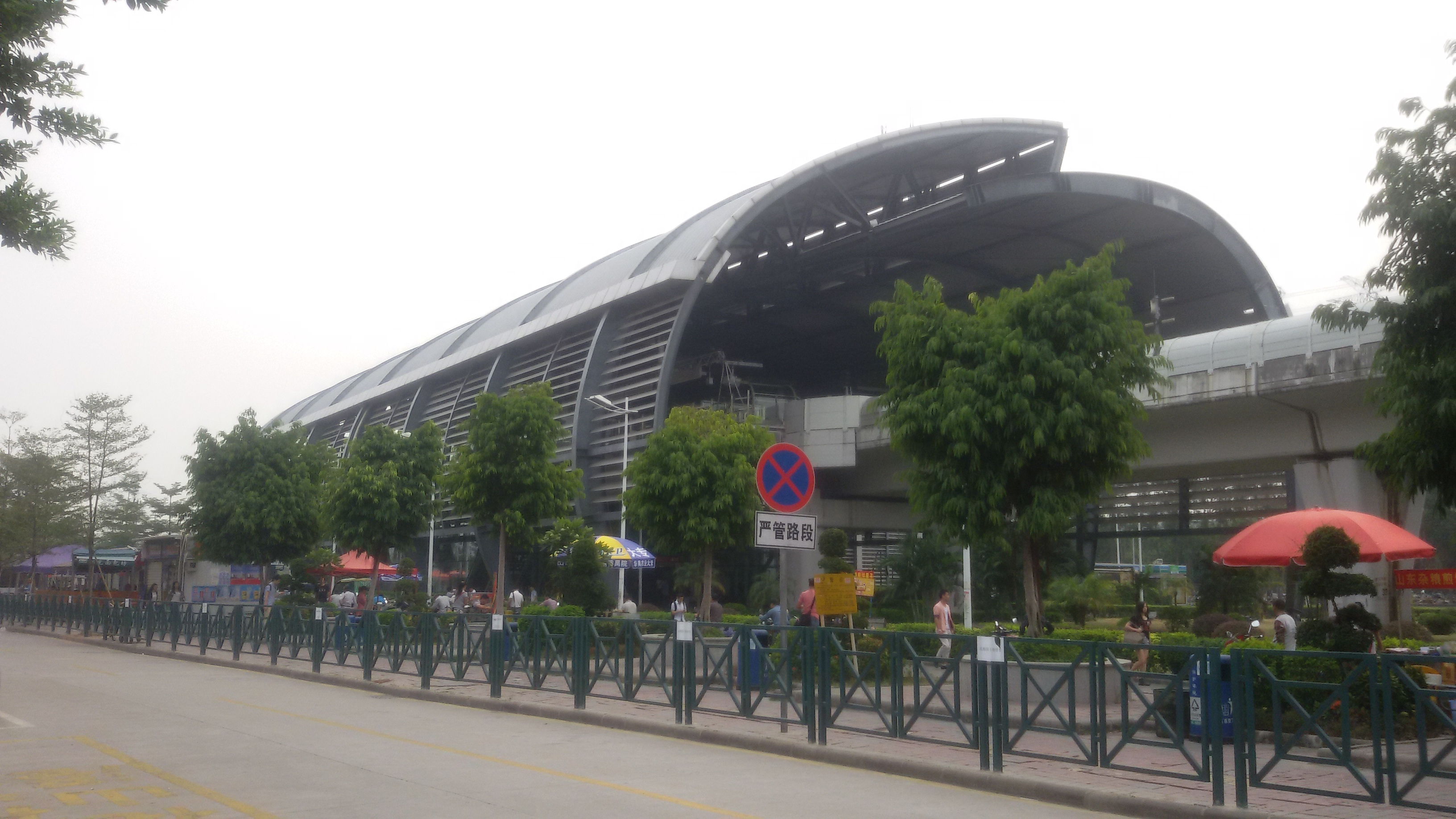 Station Surface for Shiqi Station in Guangzhou Metro.